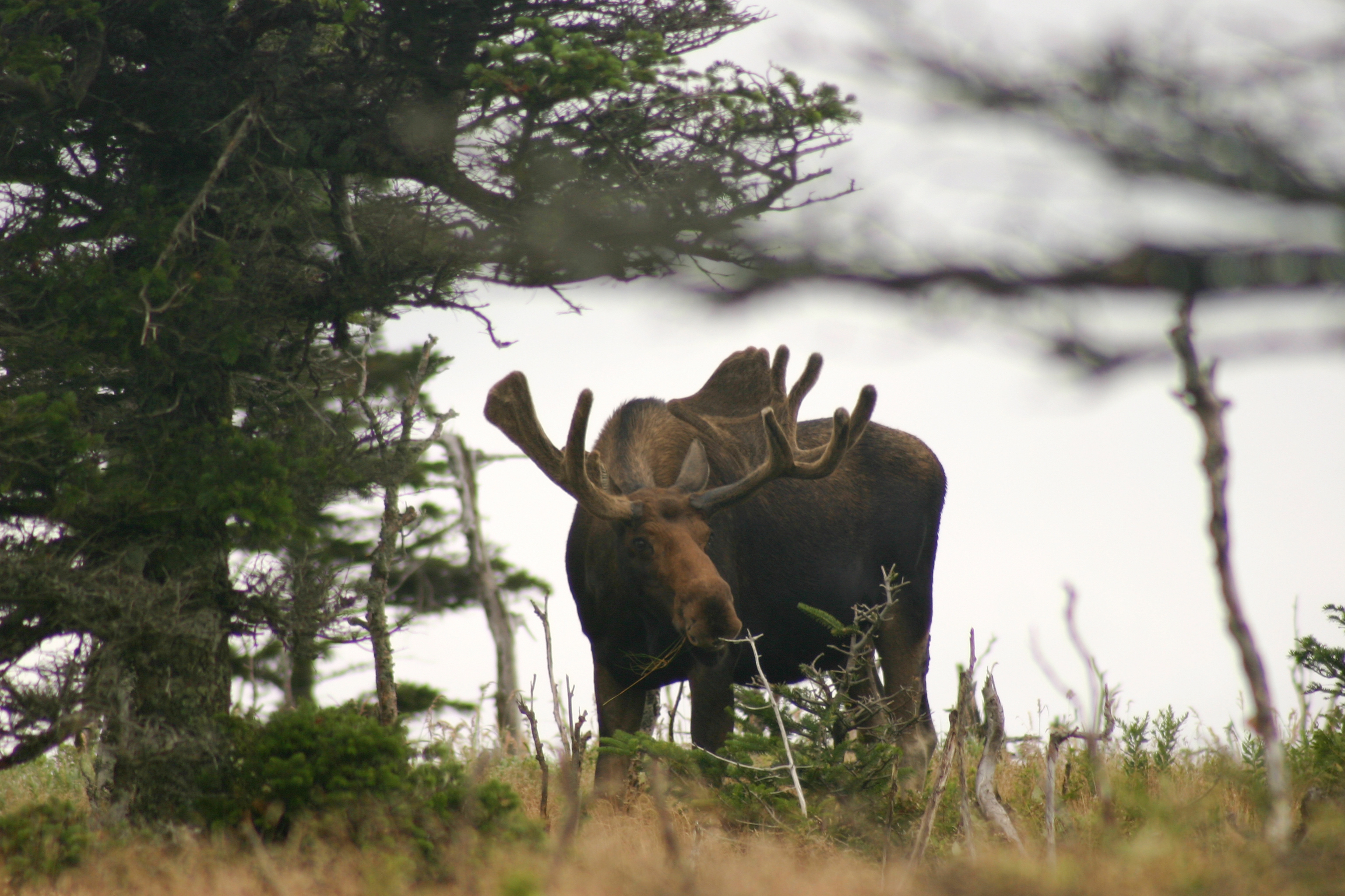 Not a mainland moose, Cape Breton has different moose than rest of eastern Canada moose (Alces alces) taken on the Skyline Trail in Cape Breton Highlands National Park.